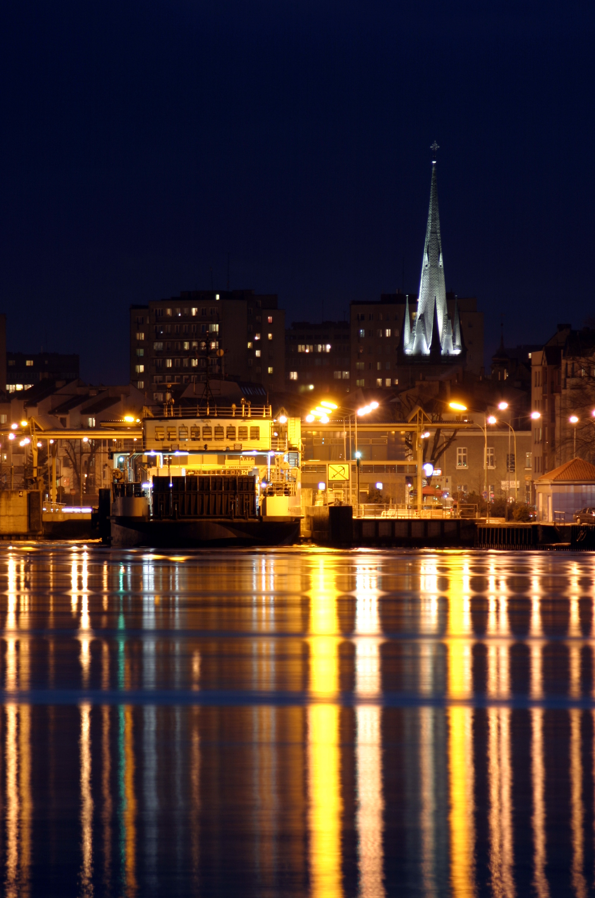 Swinoujscie City Center Ferry